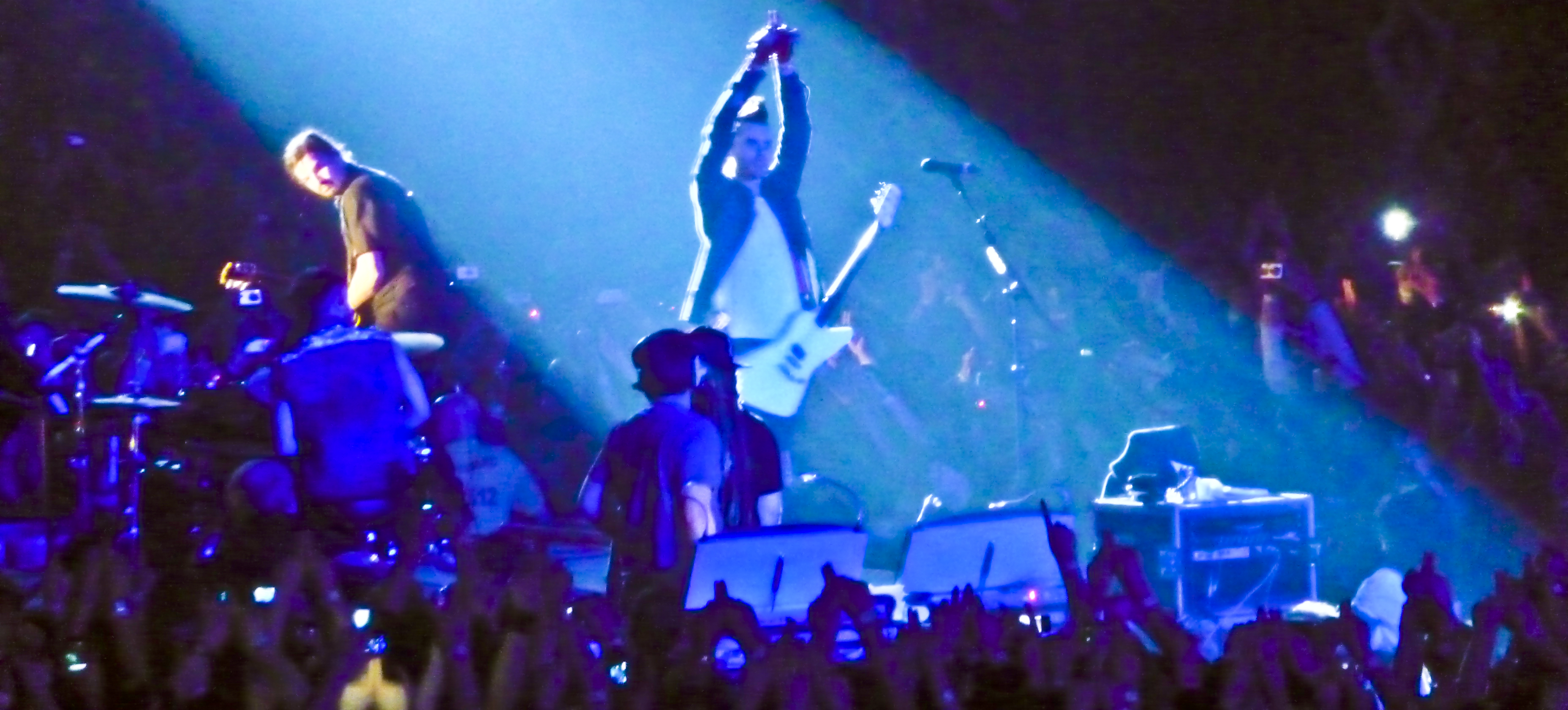 Thirty Seconds To Mars MEN Arena